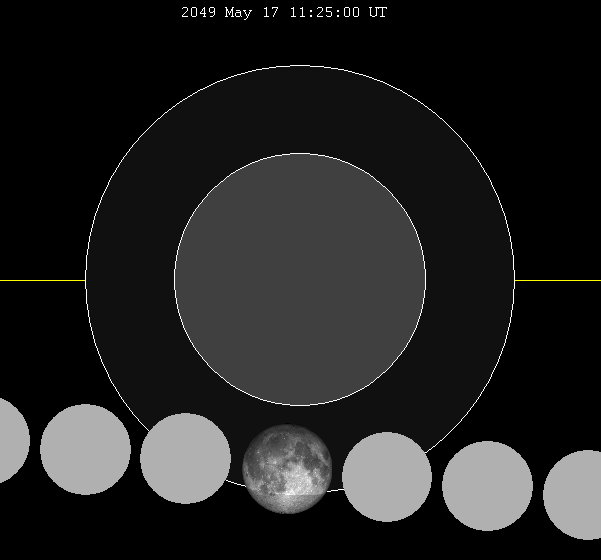 May 2049 lunar eclipse chart of moon's path through the earth's shadow. thumb